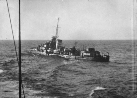 AWM Caption: MEDITERRANEAN, 1942-06-16. P0RT QUARTER VIEW OF THE DESTROYER HMAS NESTOR (G02) LISTING TO PORT AND ABANDONED AFTER SUFFERING FATAL DAMAGE TO HER BOILER ROOMS IN A BOMBING ATTACK. NOTE THE HAMMOCKS DRAPED OVER THE SIDE FOR USE AS FENDERS WHEN THE DESTROYER HMS JAVELIN CAME ALONGSIDE TO TAKE OFF HER CREW. THE SHIP IS FITTED WITH TYPE 285 FIRE CONTROL RADAR ON HER HIGH ANGLE DIRECTOR TOWER.(NAVAL HISTORICAL COLLECTION)